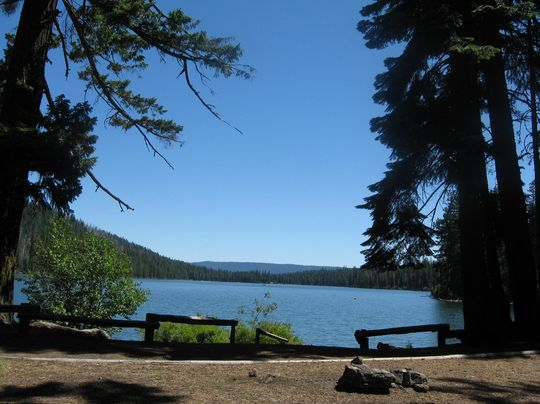 Suttle Lake viewed from Link Creek Campground, looking east